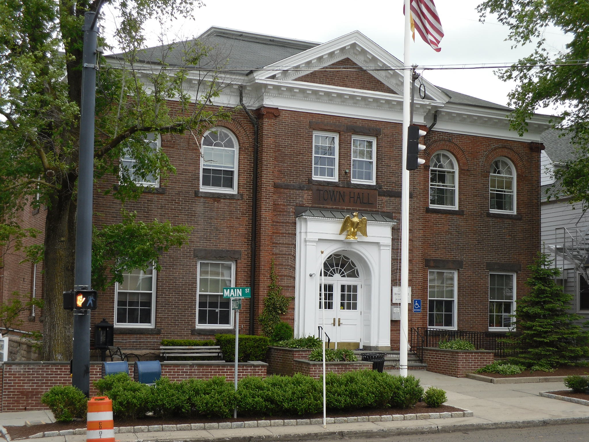 Ridgefield, Connecticut